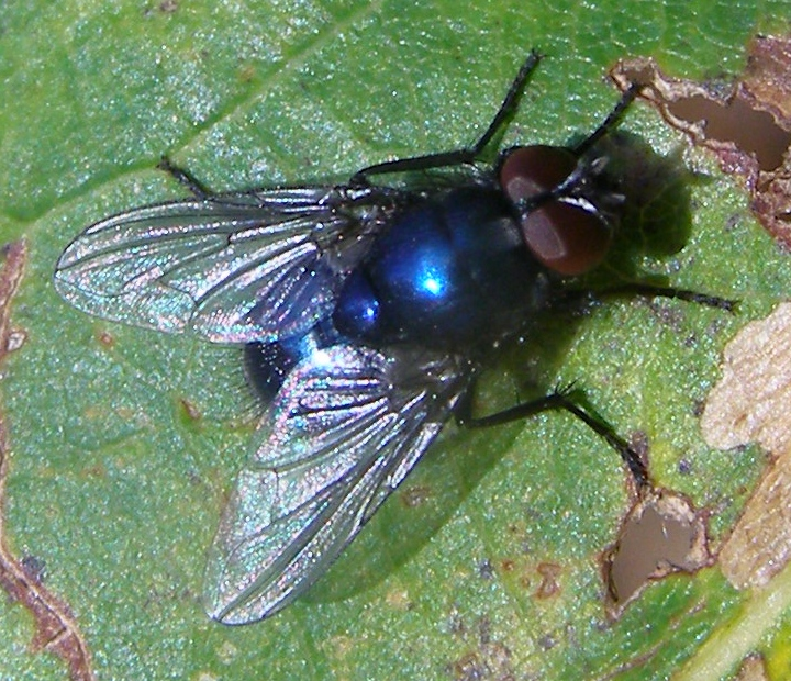 A male Muscid fly of species Eudasyphora cyanicolor.